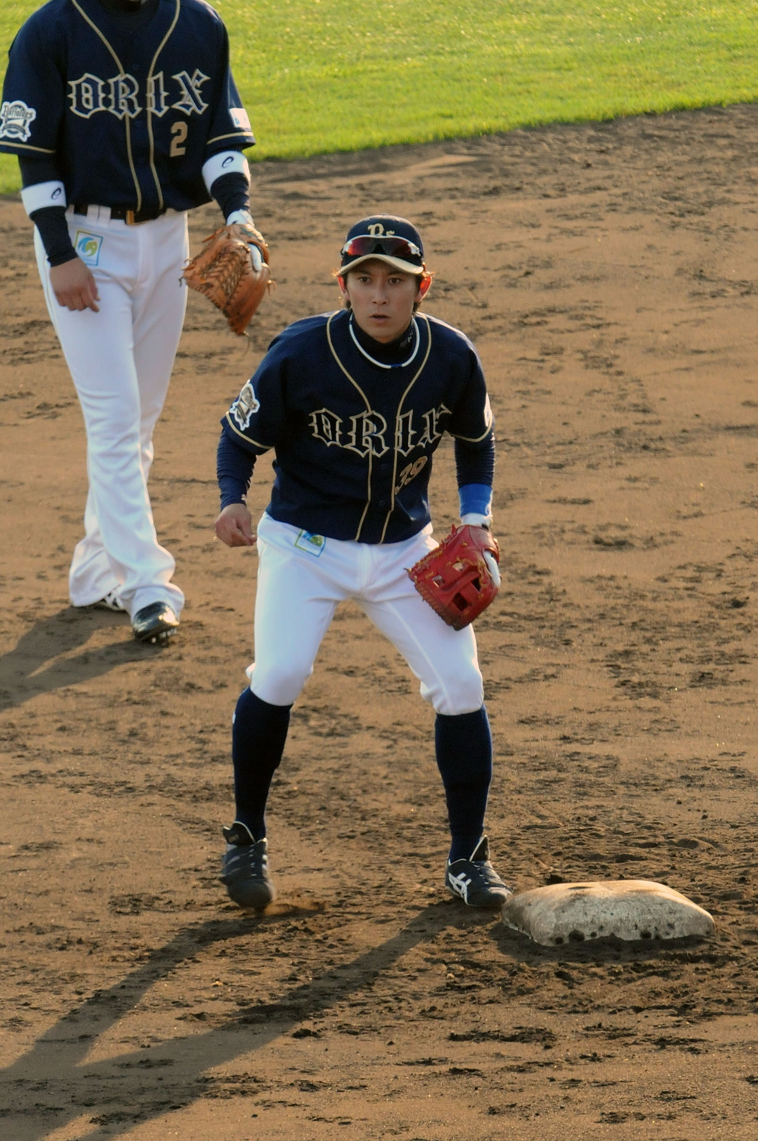 Masahiro Nishino, infielder of the Orix Buffaloes, at Akita Prefectural Baseball Stadium